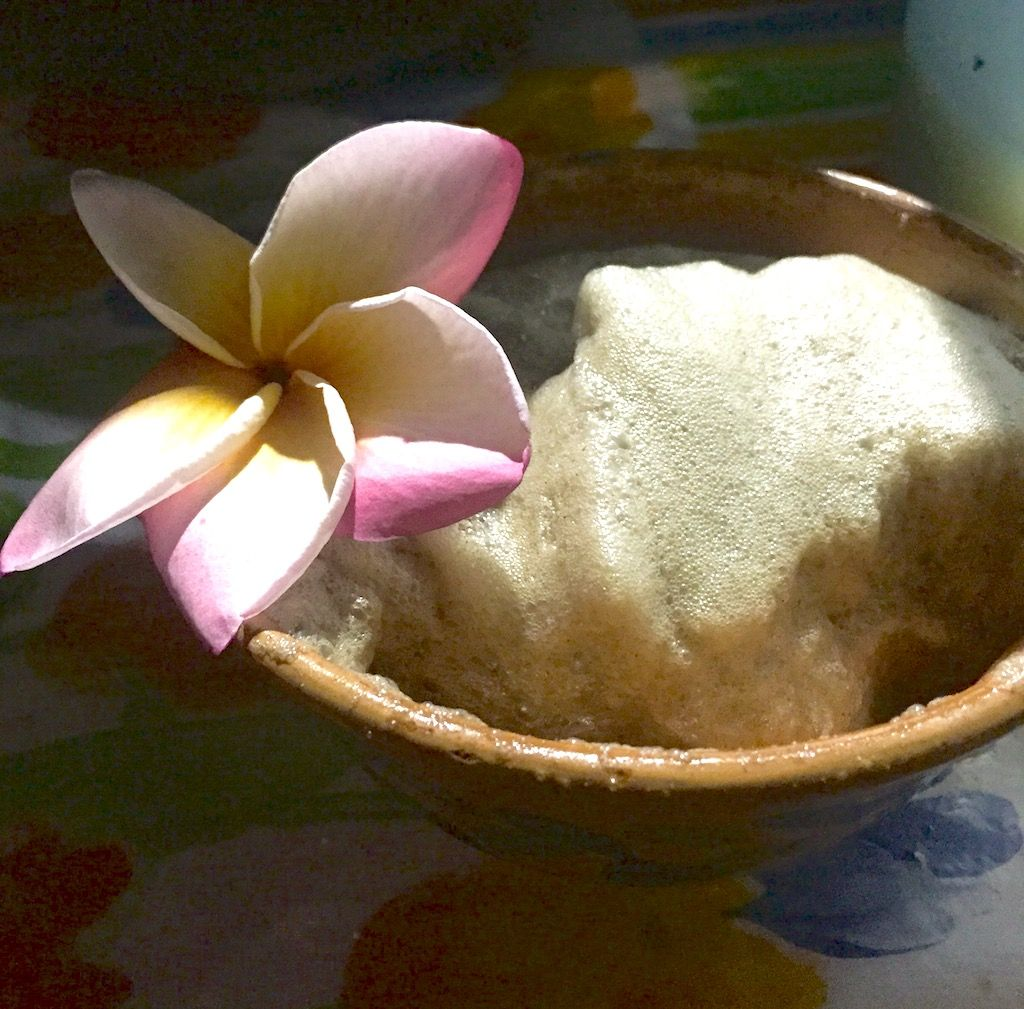 Bupu means foam in the Zapotec language of the Isthmus